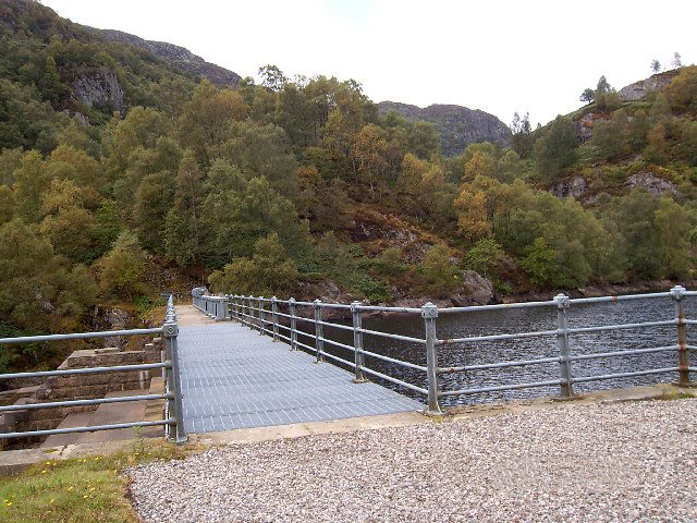 Loch Katrine Dam.